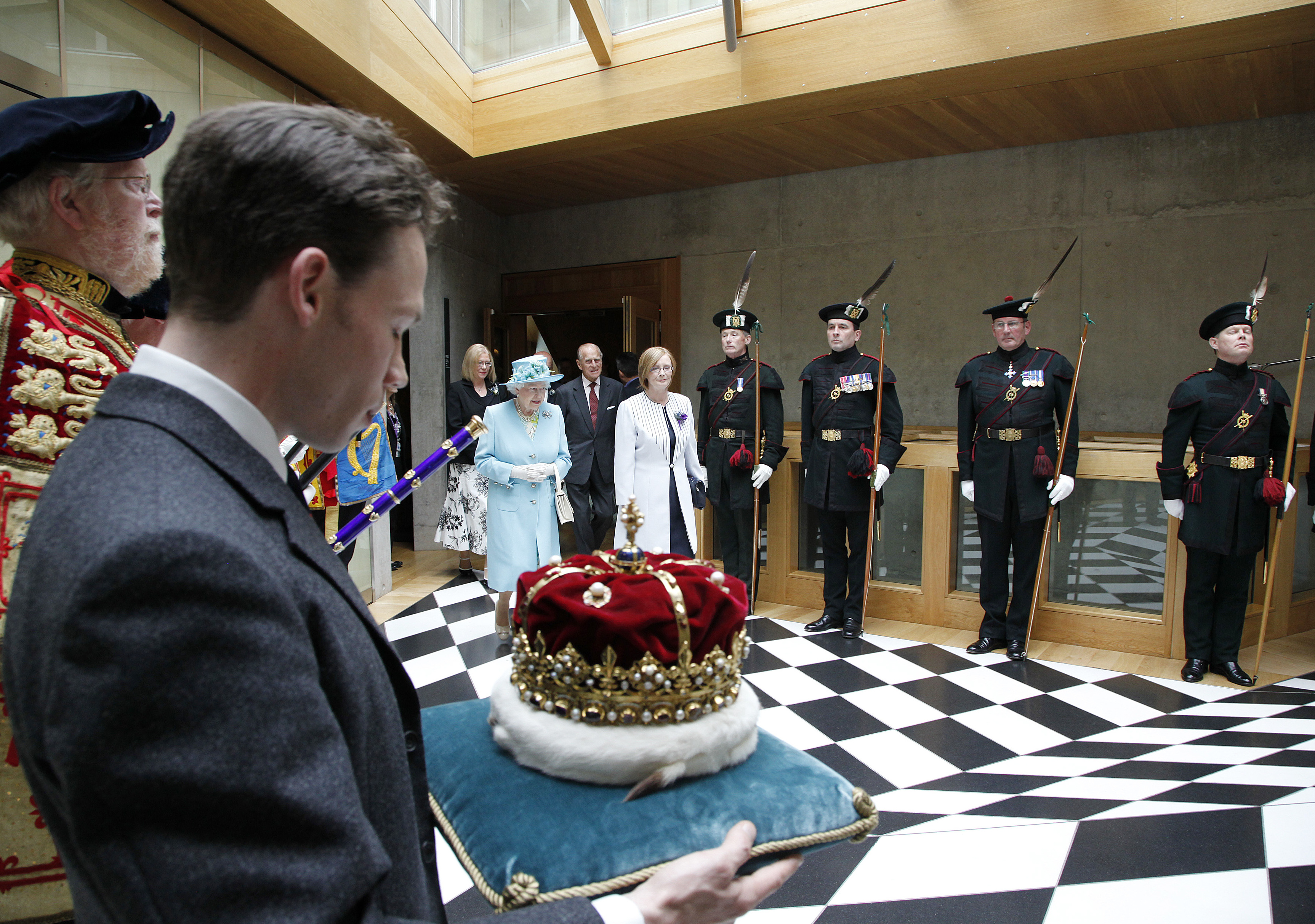 The Crown of Scotland is carried, for the first time by The 16th Duke of Hamilton, as Her Majesty The Queen leaves the Chamber accompanied by Presiding Officer Tricia Marwick MSP following the Opening of the fourth Session of The Scottish Parliament in July 2011.